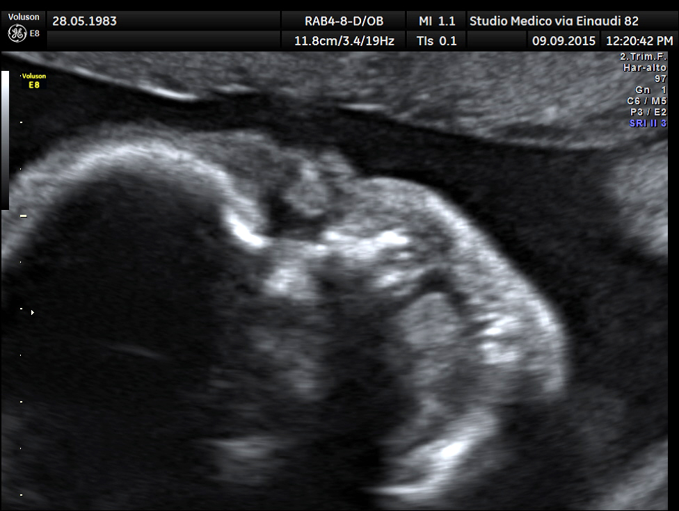 Ultrasound image of fetal head with a monolateral congenital cataract at 24 weeks of pregnancy.